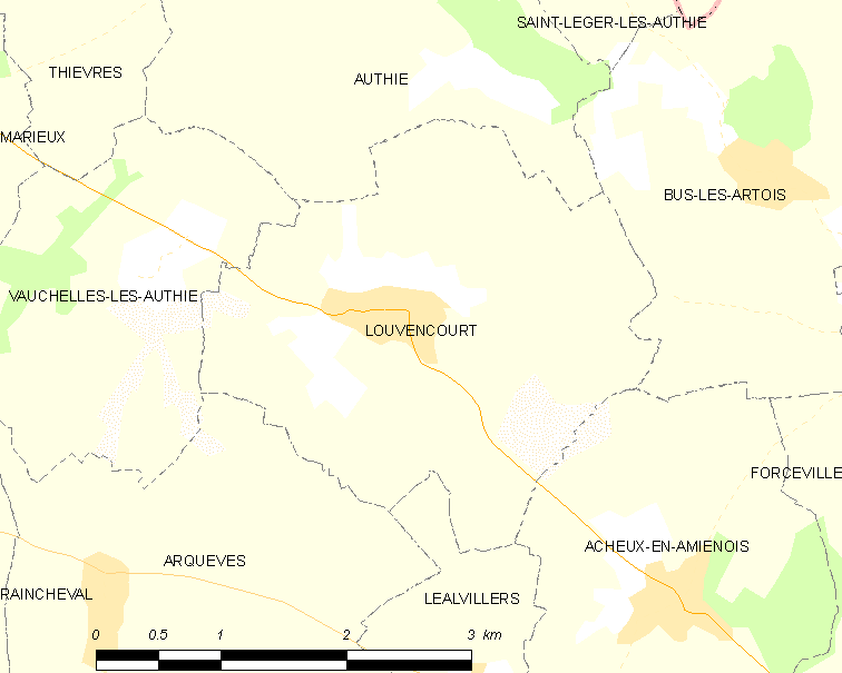 Map of French municipality Louvencourt